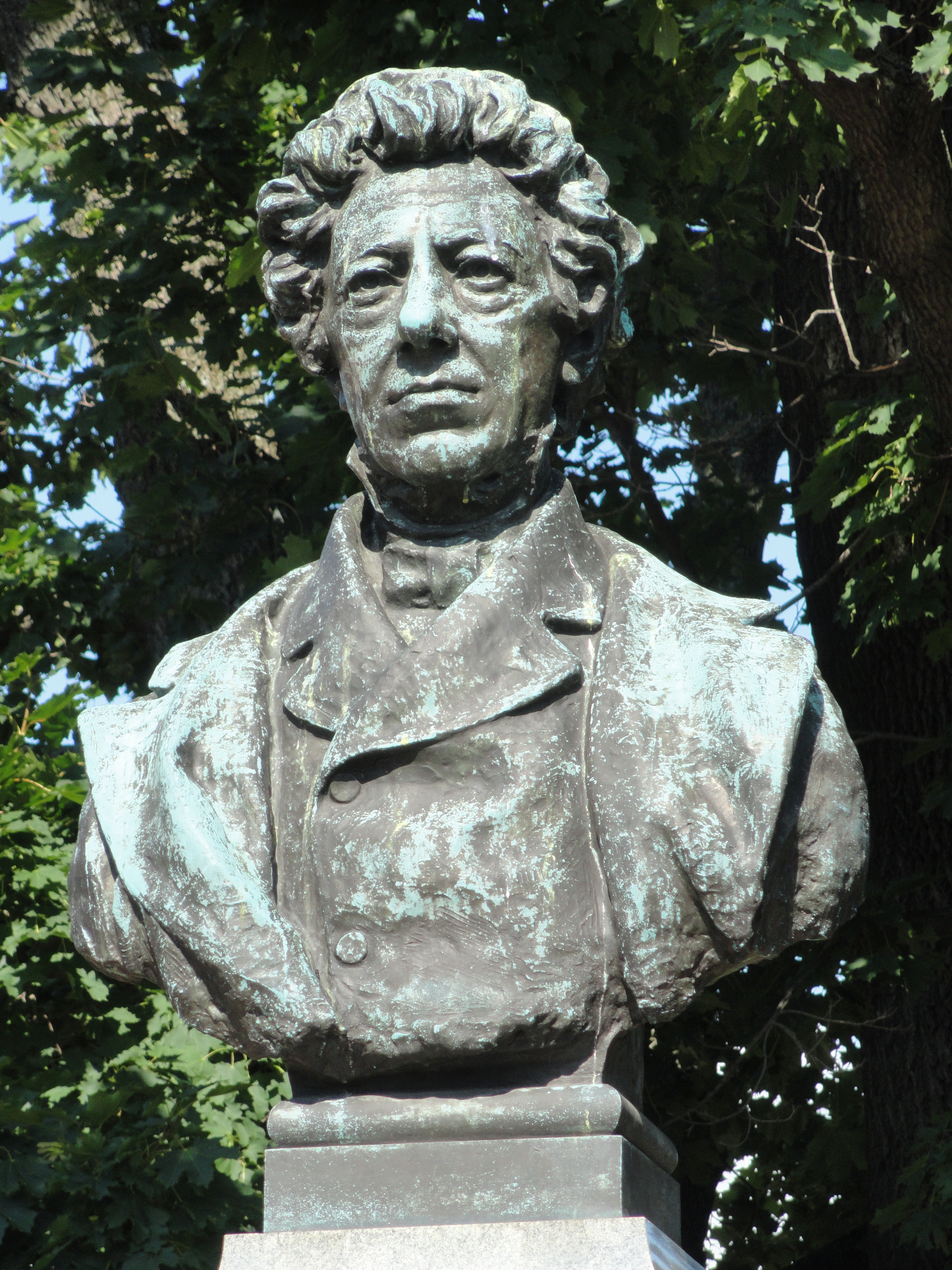 Bust of Fredrik Pacius by Emil Wikström, Helsinki, Finland. Dedicated in 1895. This sculpture is in the public domain because the artist died more than 70 years ago.